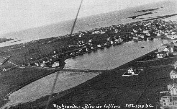 The first aerial photograph of Reykjavík, made in 1919 from the AVRO 504K airplane depicted in Image:First aeroplane in Iceland.jpg.